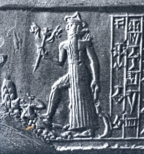 Nergal. Fragment of impression of seal from Larsa. 2nd millenium B.C. Baghdadi Museum.